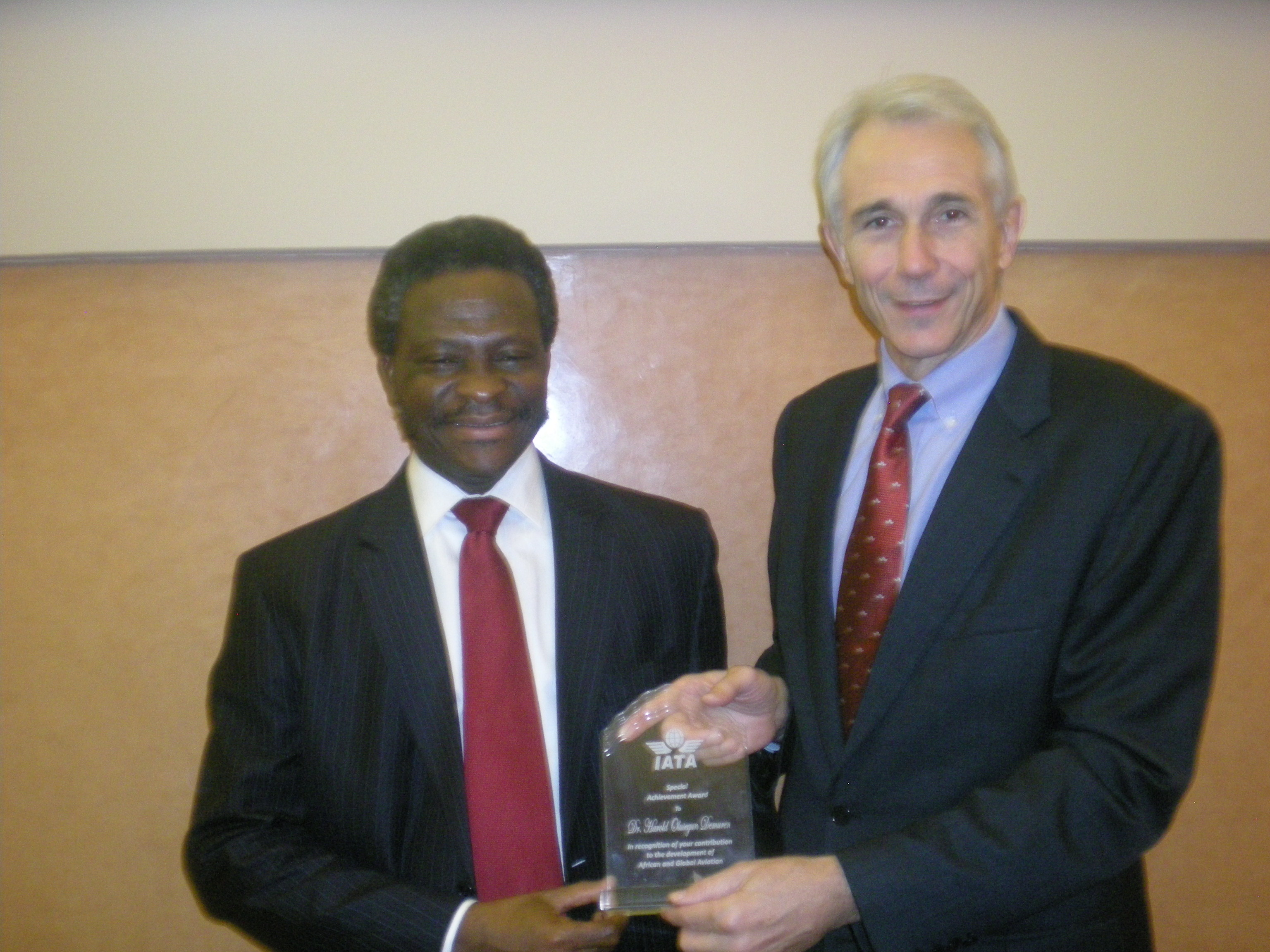 Demuren receiving the 2011 IATA African Aviation Personality of the Year from IATA President John Tyler in Nov 2011